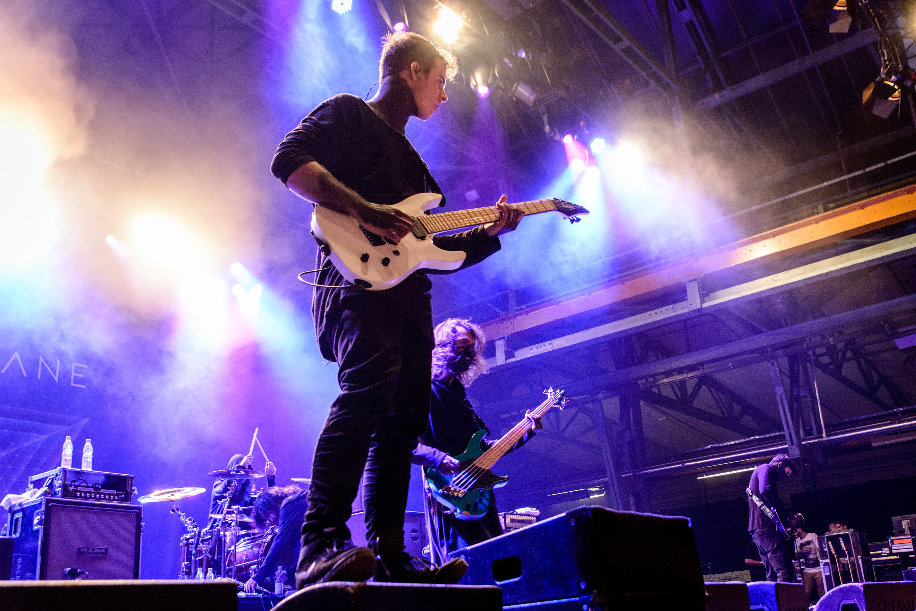 Northlane Live @ Impericon 2016 Munich